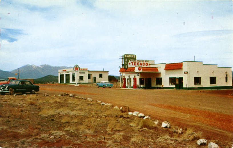 Postcard showing exterior view of Winona Trading Post, Winona.